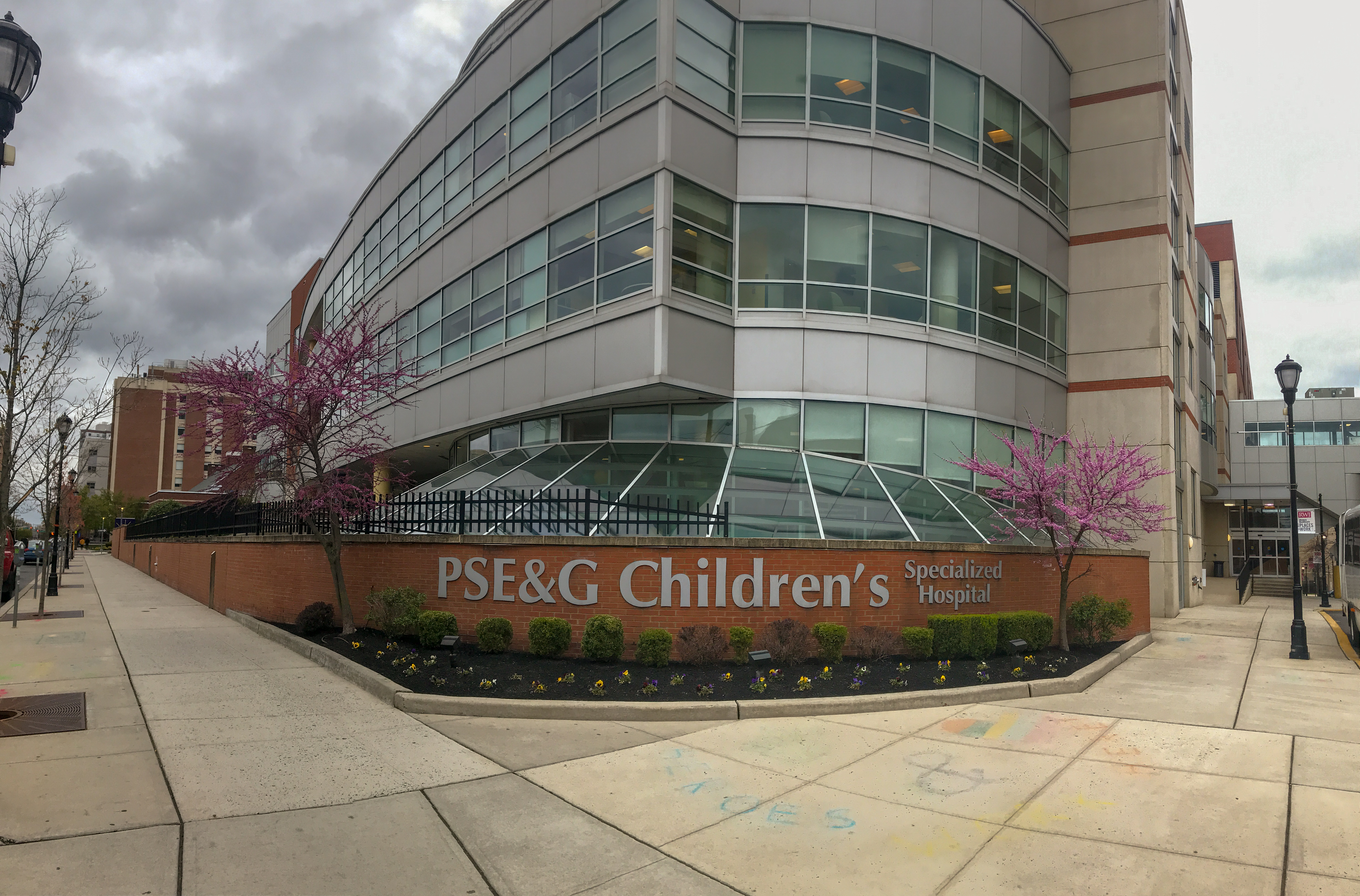 The Children's Specialized Hospital New Jersey corner sign panorama